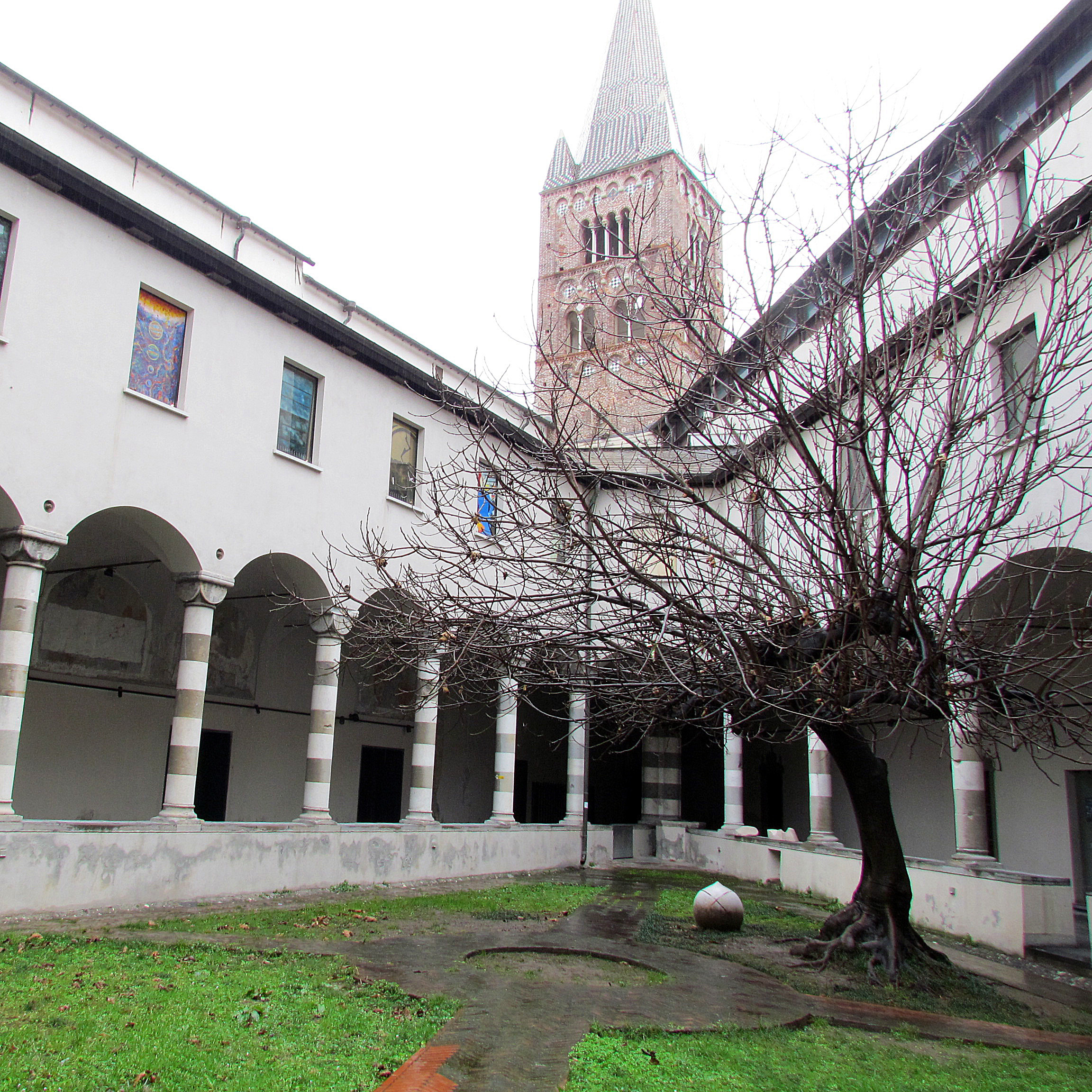 Cloister S. Agostino Genoa